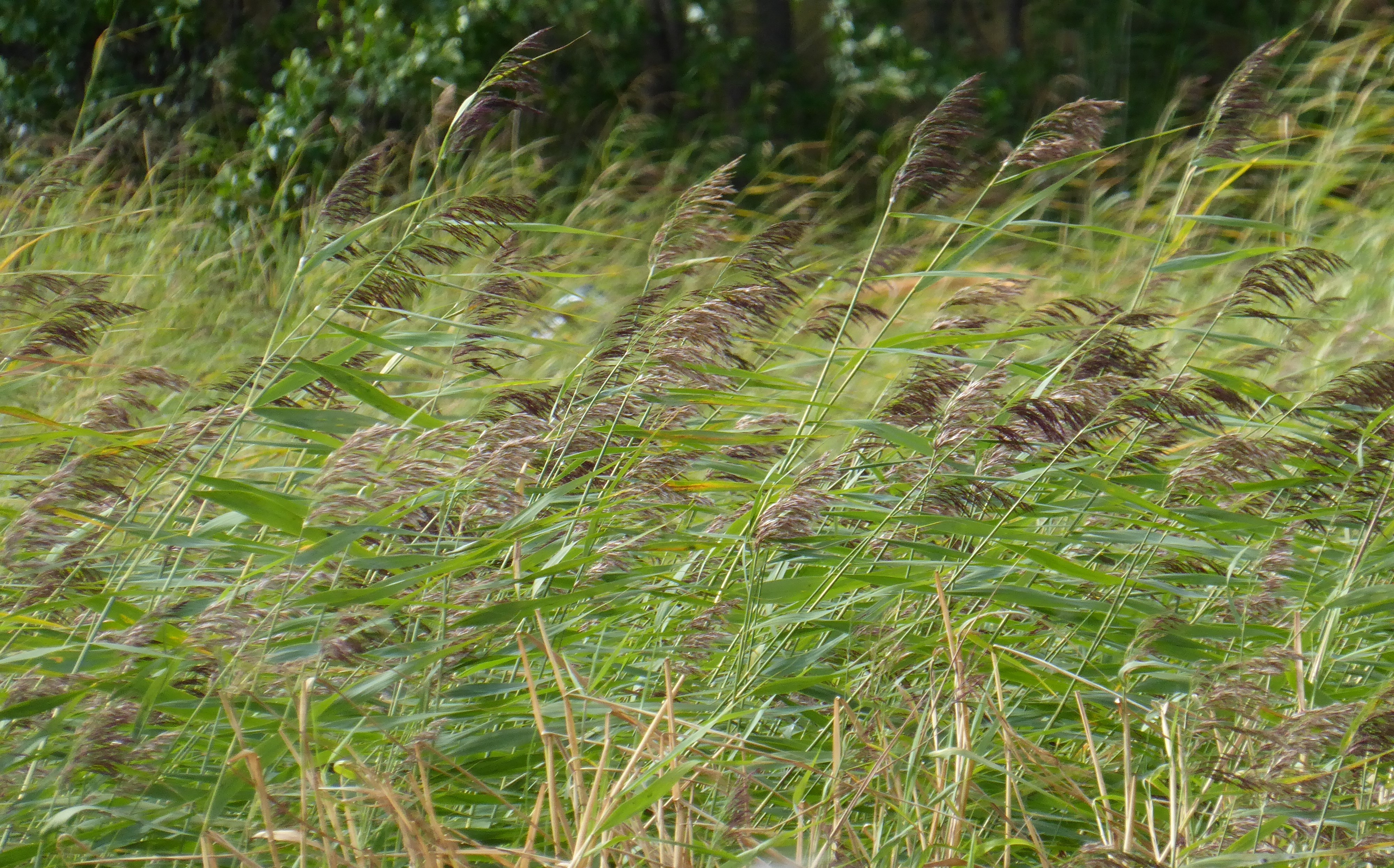 Reed, Fågelbrolandet, Sweden